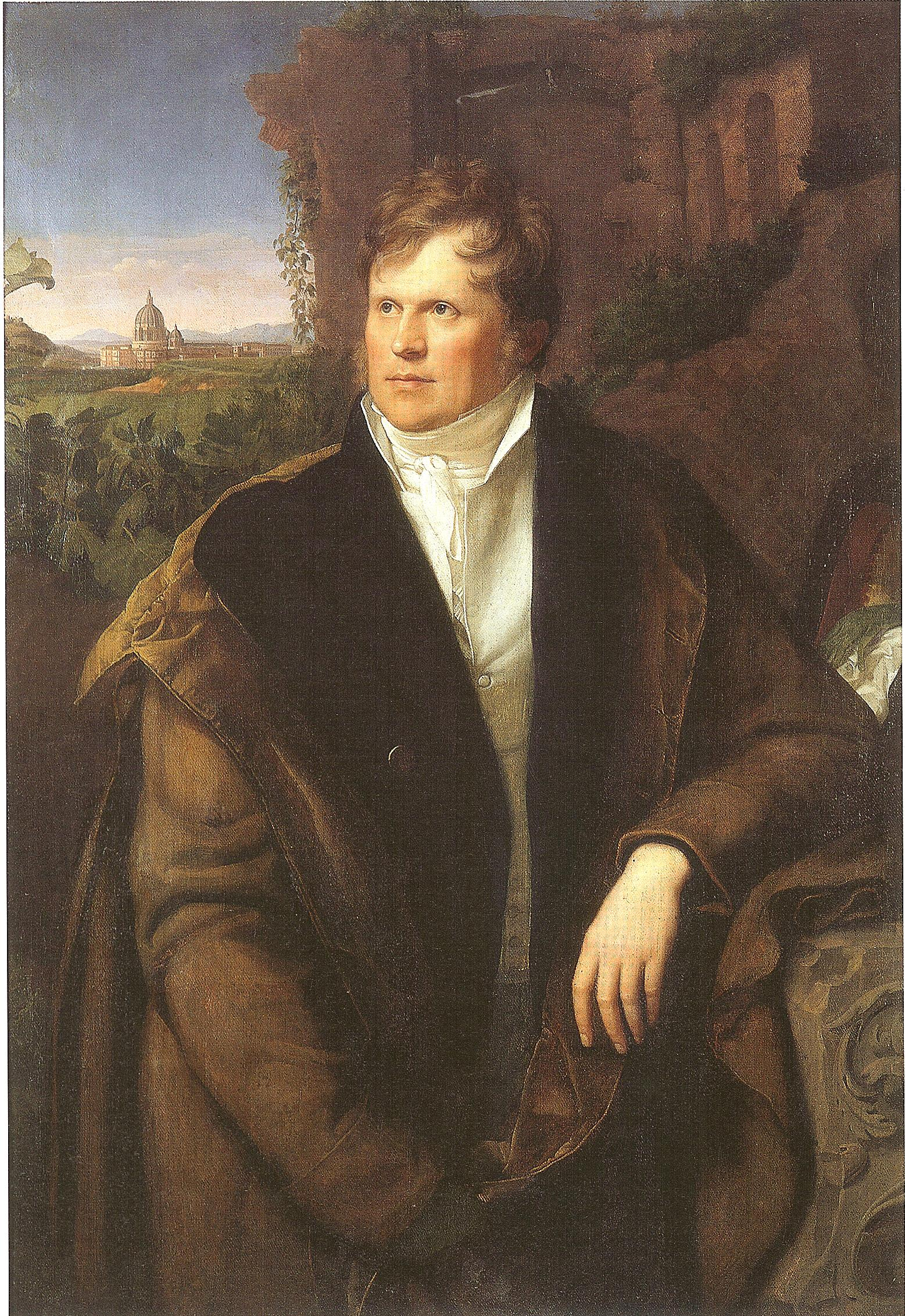 Carl Christian Vogel von Vogelstein: Portrait of Immanuel Christian Leberecht von Ampach, Rome 1820; oil on canvas 120 x 87 cm; Gera Kunstsammlungen